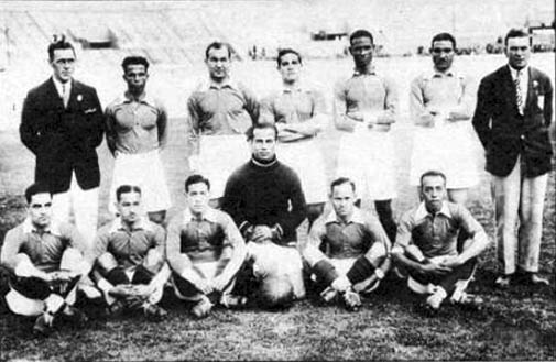 Photo of the Egyptian team at the 1928 Summer Olympics